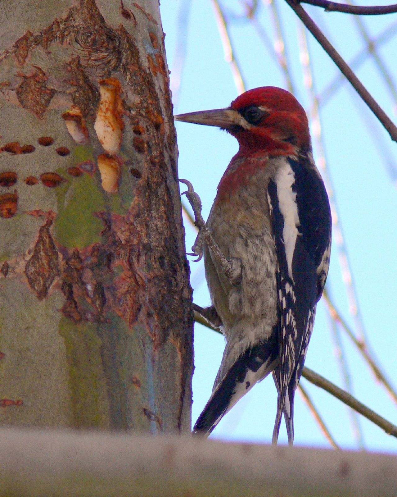 Red-breasted Sapsucker